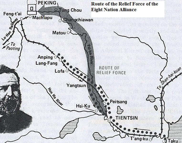 A map of military operations in northern China in 1900